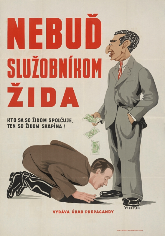 "Nebuď služobníkom žida: kto sa so židom spolcuje, ten so židom skapína" translates to "do not be a servant to the Jew: he who associates with a Jew will sink down to his level"